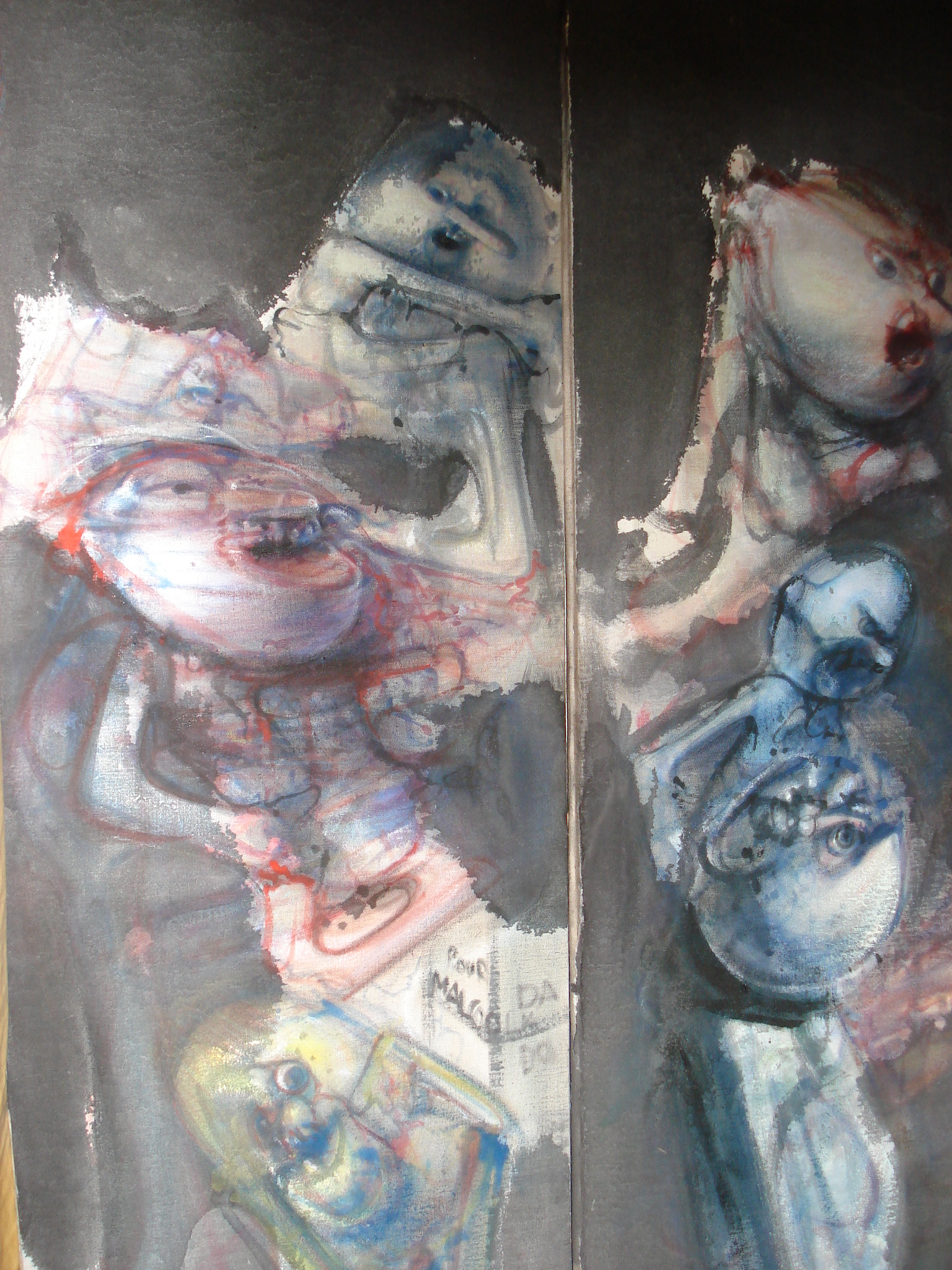 Huile sur toile de Dado Miodrag Djuric